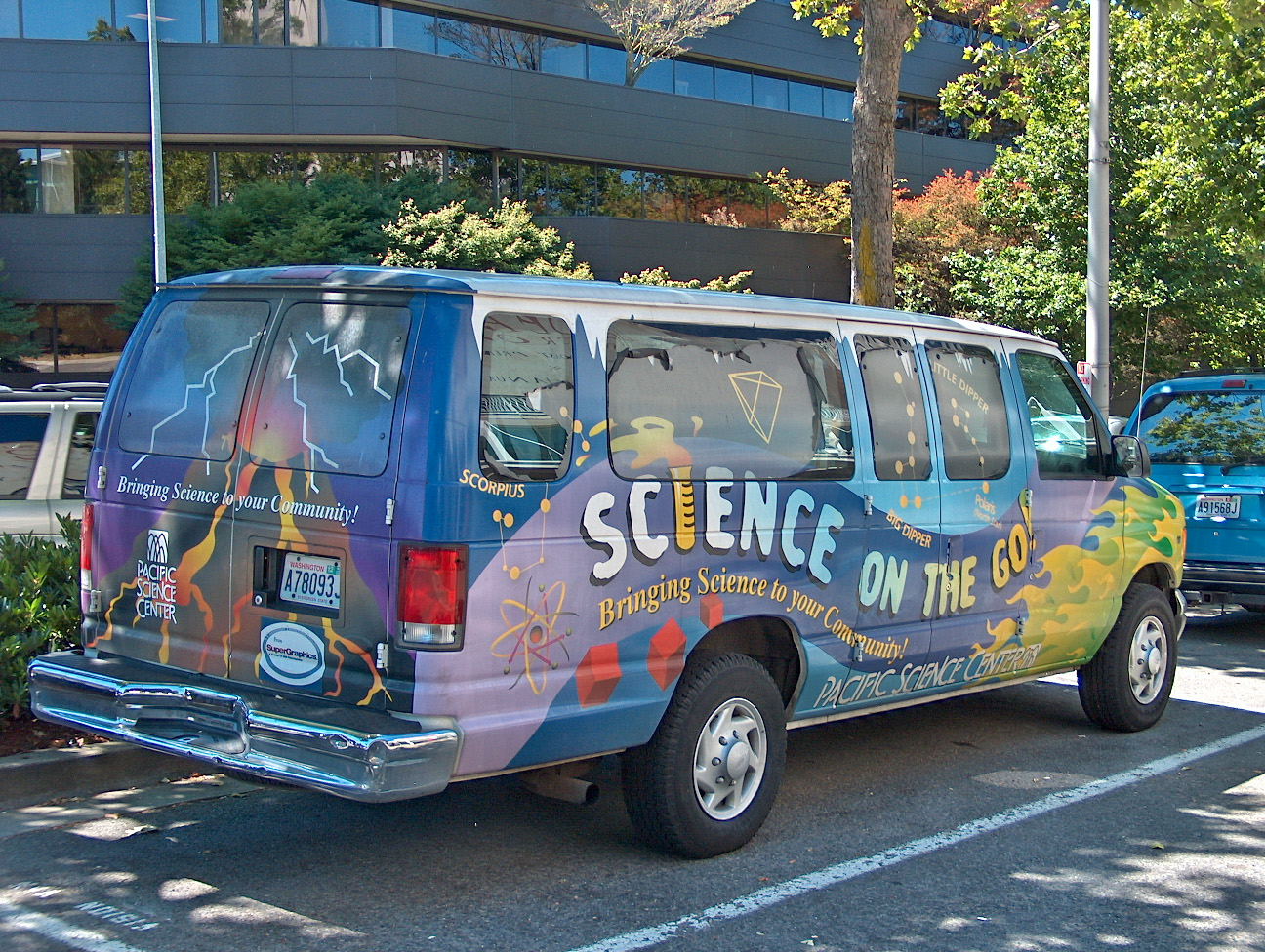 Long Ford E-series van for Pacific Science Center school visits.